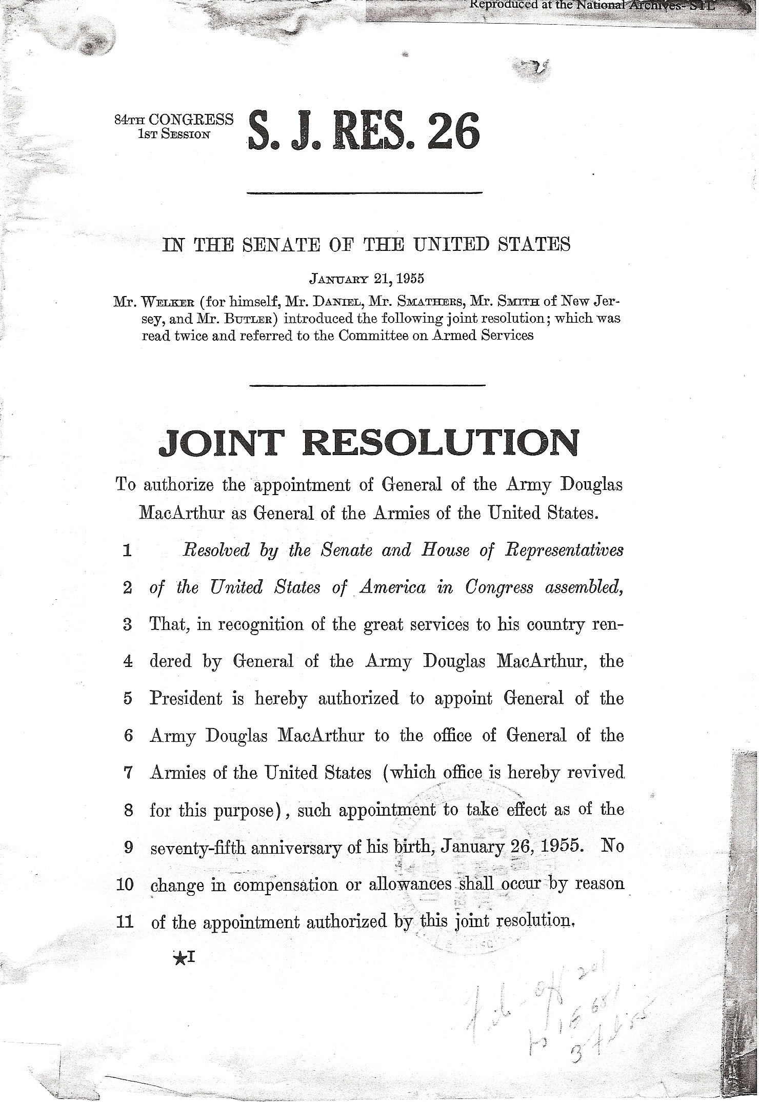 Authorization by the U.S. Senate to appoint General of the Army Douglas MacArthur as General of the Armies of the United States.